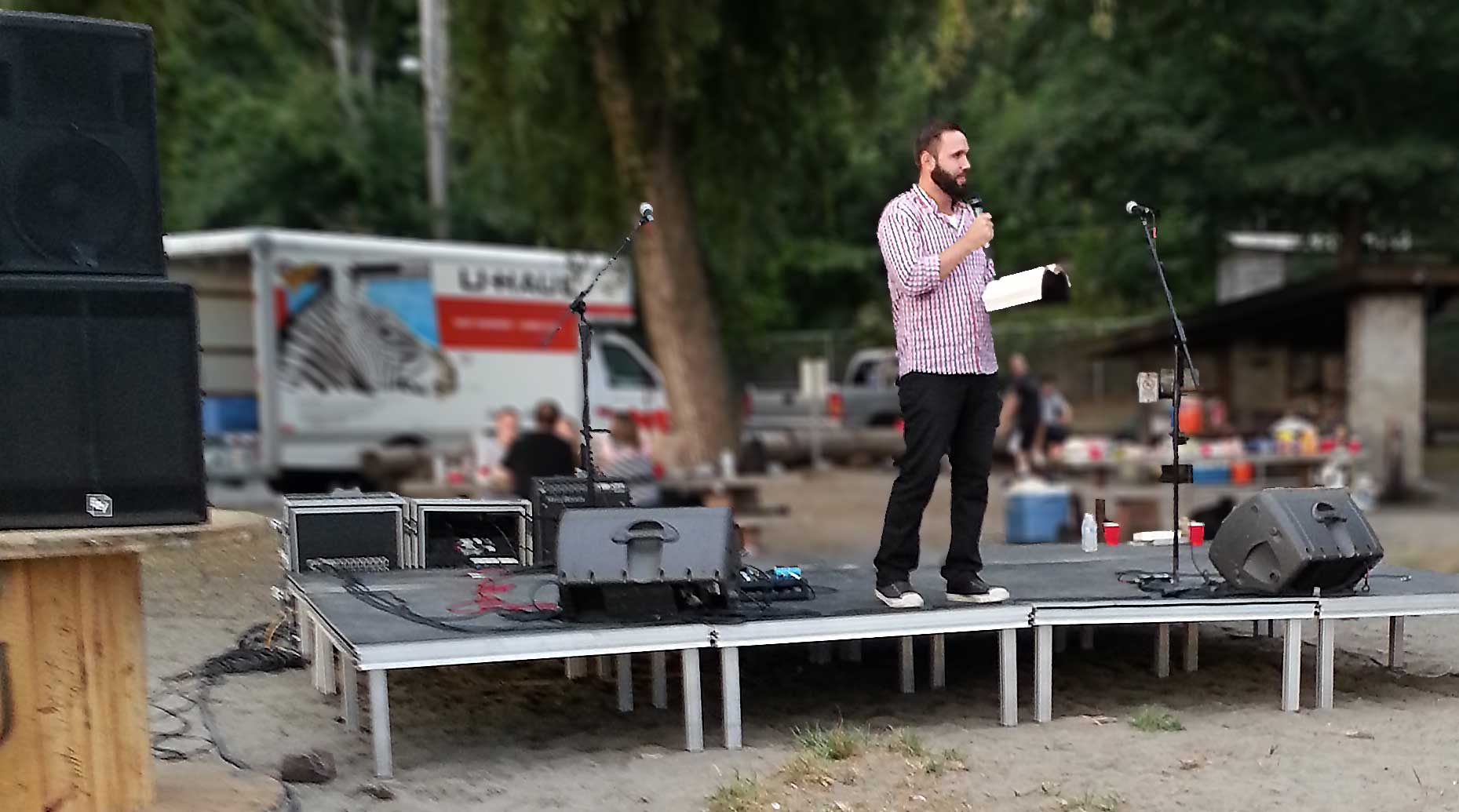 Pastor performing the sermon is unknown (not Mark Driscoll).